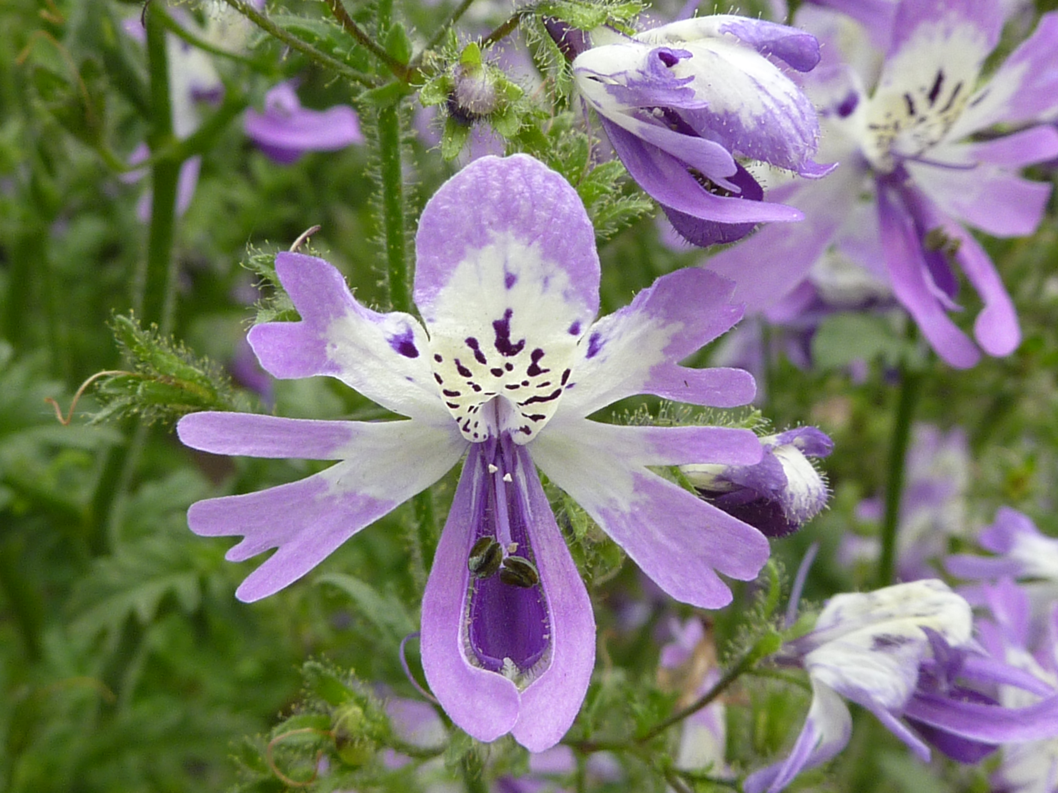 Taken in the Cambridge University Botanic Garden